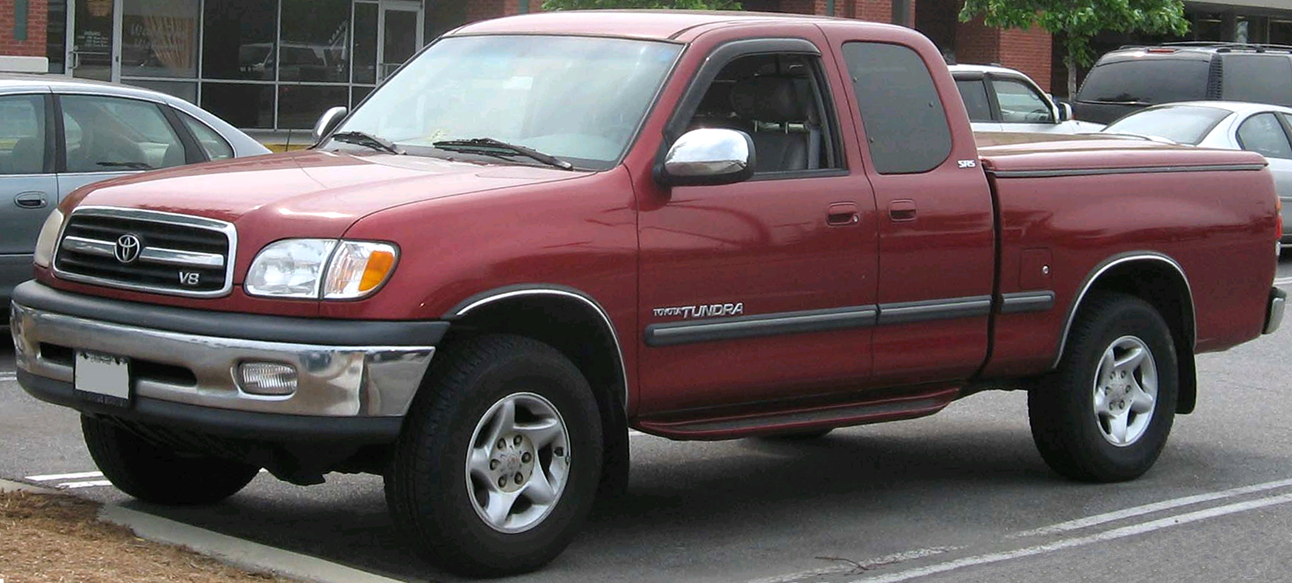 2000-2002 Toyota Tundra photographed in USA.